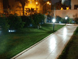 night in Sea-Plaza